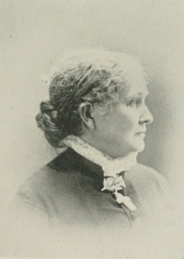 A Woman of the Century